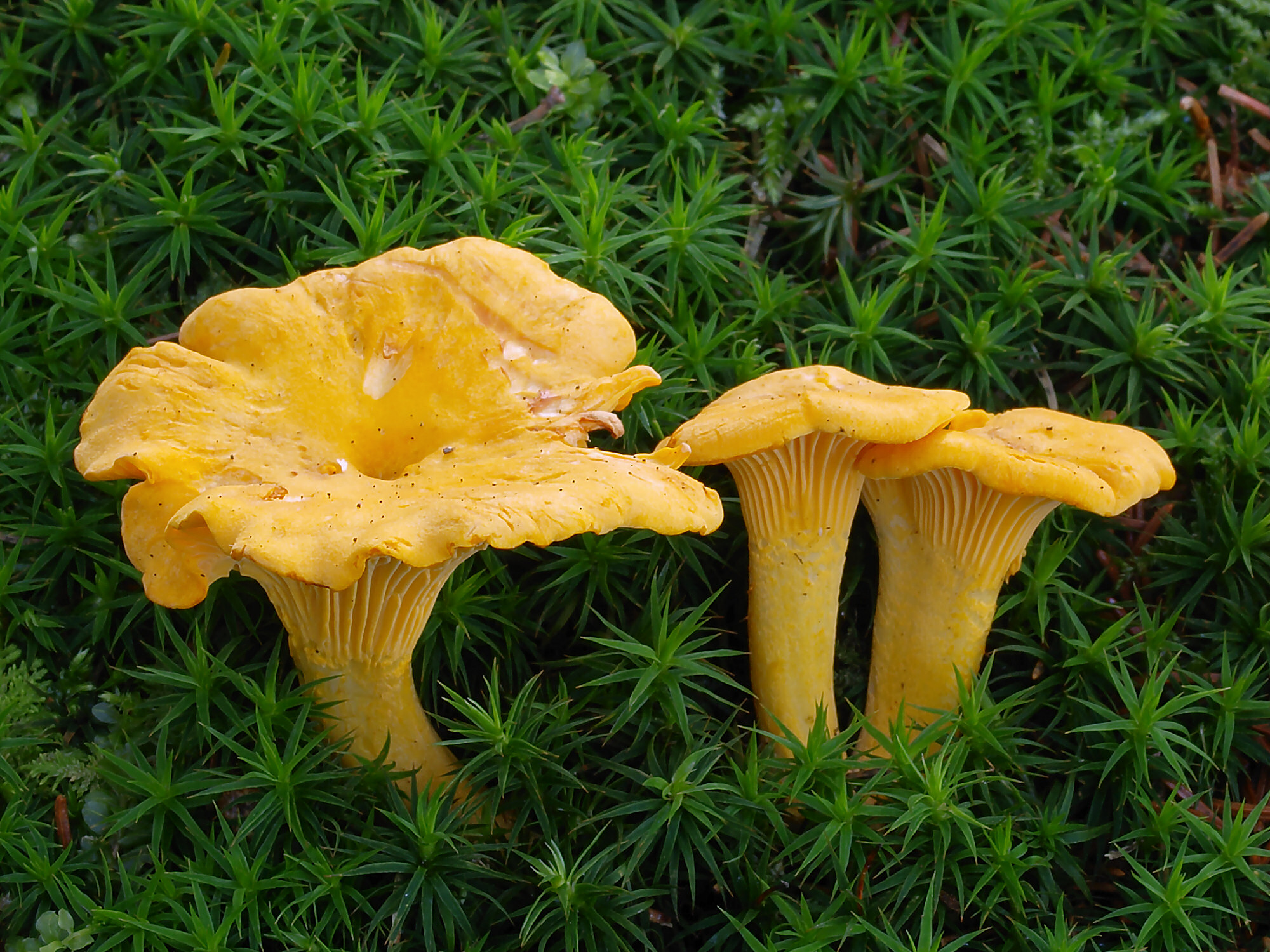 Chanterelle (Cantharellus cibarius)